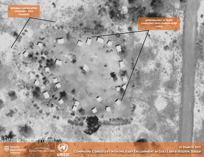 Goli encampment, March 21, 2011.